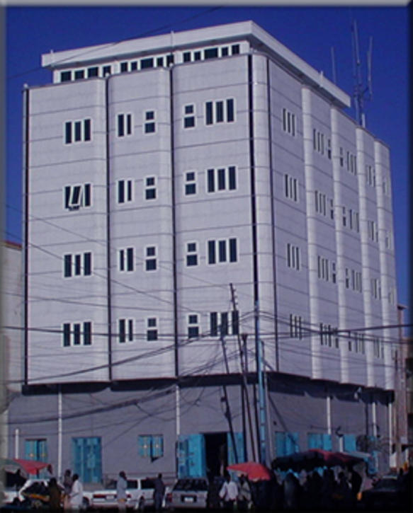 Money exchange center and hotel in Hargeisa, Somaliland.